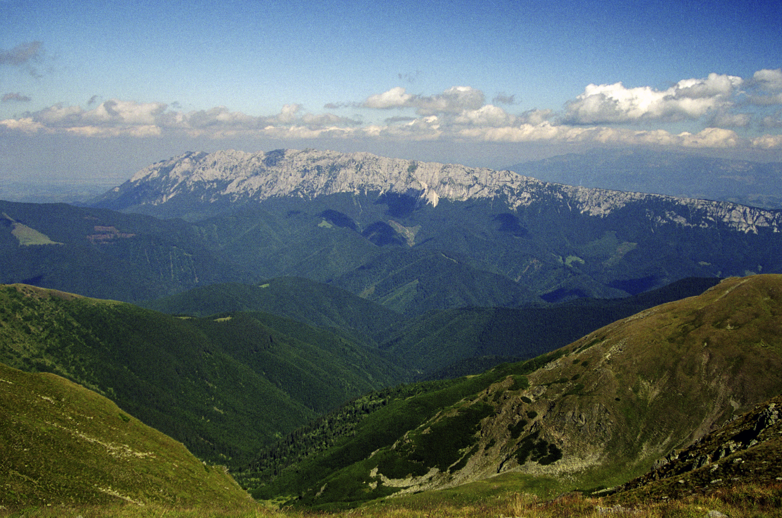 View of the Piatra Craiului Mountains from Iezer Păpușa, Romania